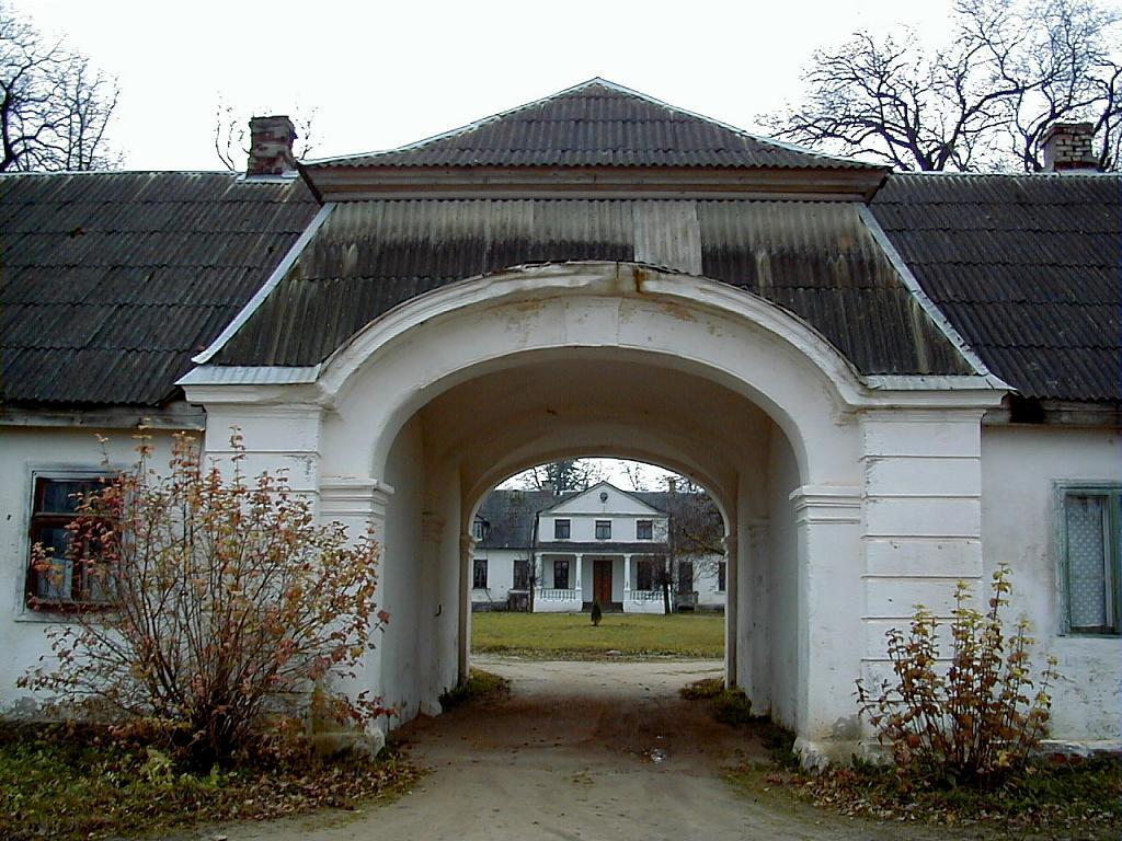 Gate of Blankenfeld manor, Latvia